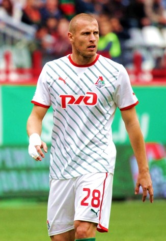 Jan Durica